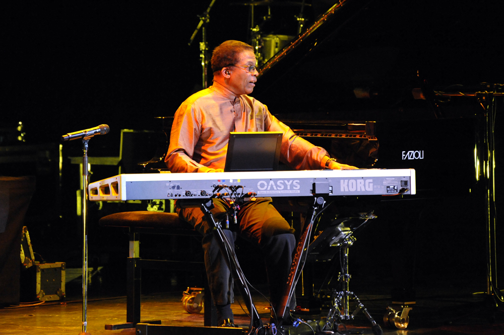 Herbie Hancock performing in Warszawa, Poland in November 2010 with his Imagine Project.